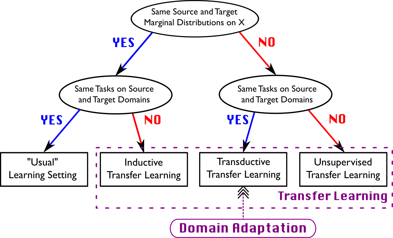 Distinction between usual machine learning setting and transfer learning, and positioning of domain adaptation.